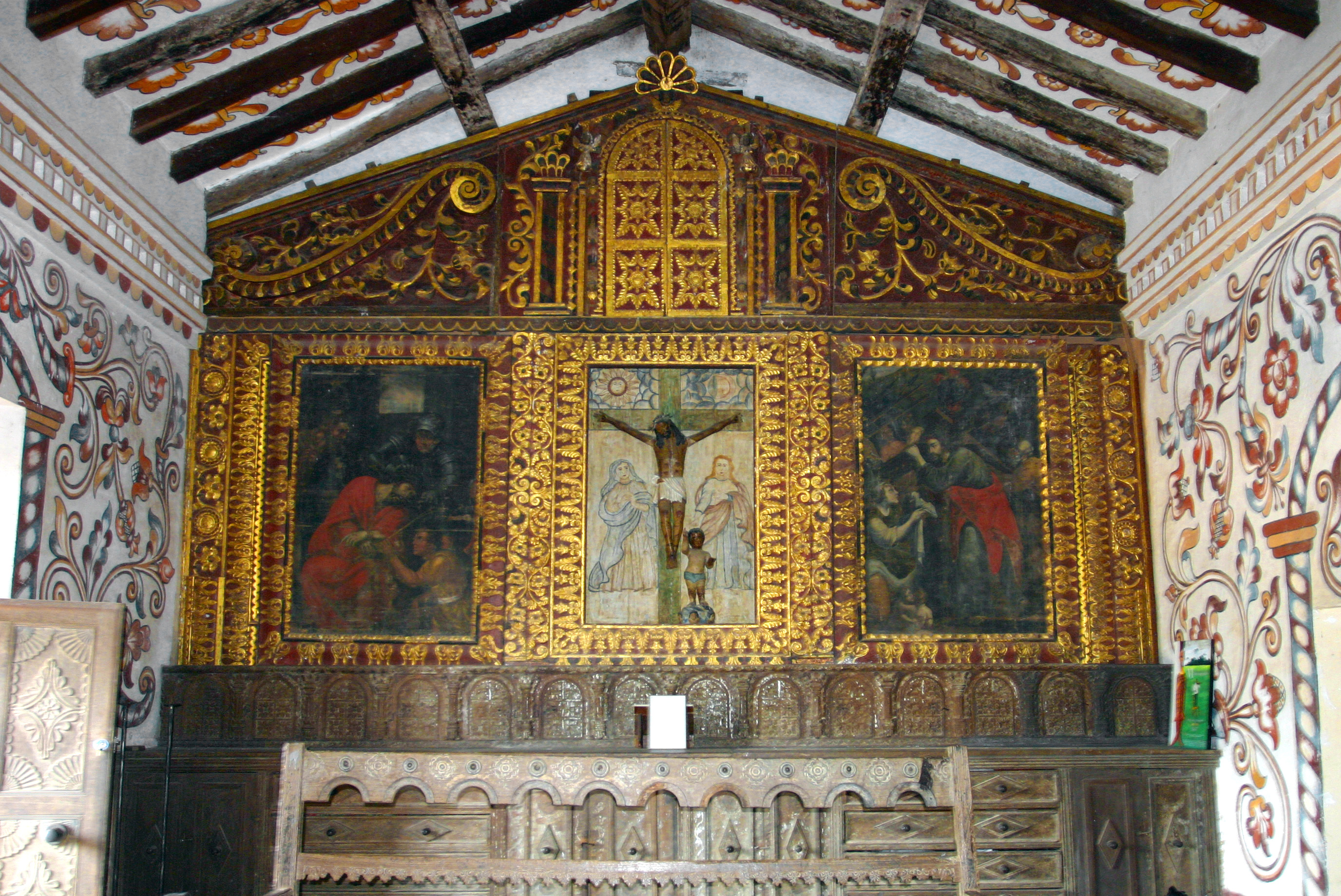 Sacristy, church, San Rafael de Velasco, Bolivia